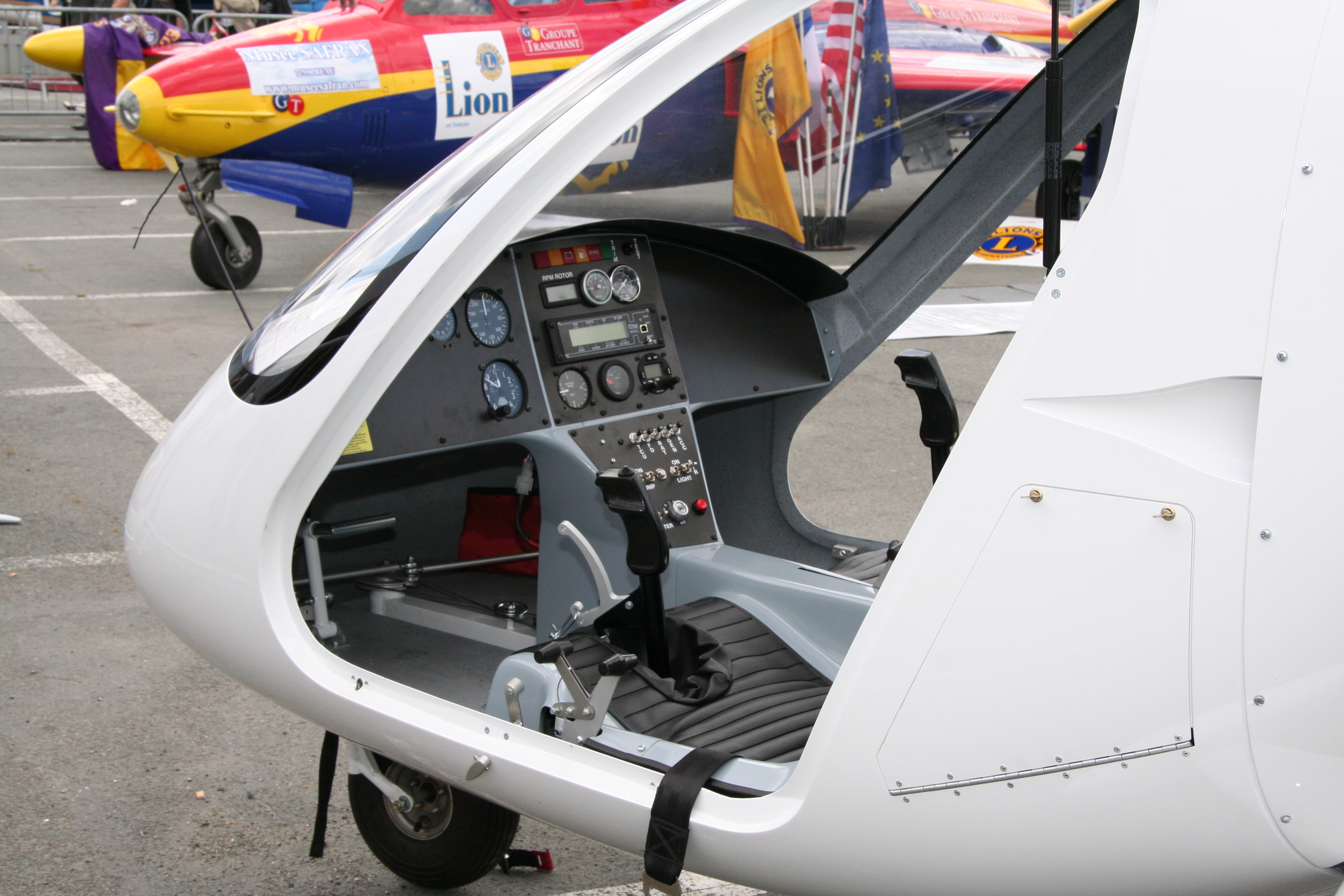 Magni M24 Orion - Paris Air Show 2009